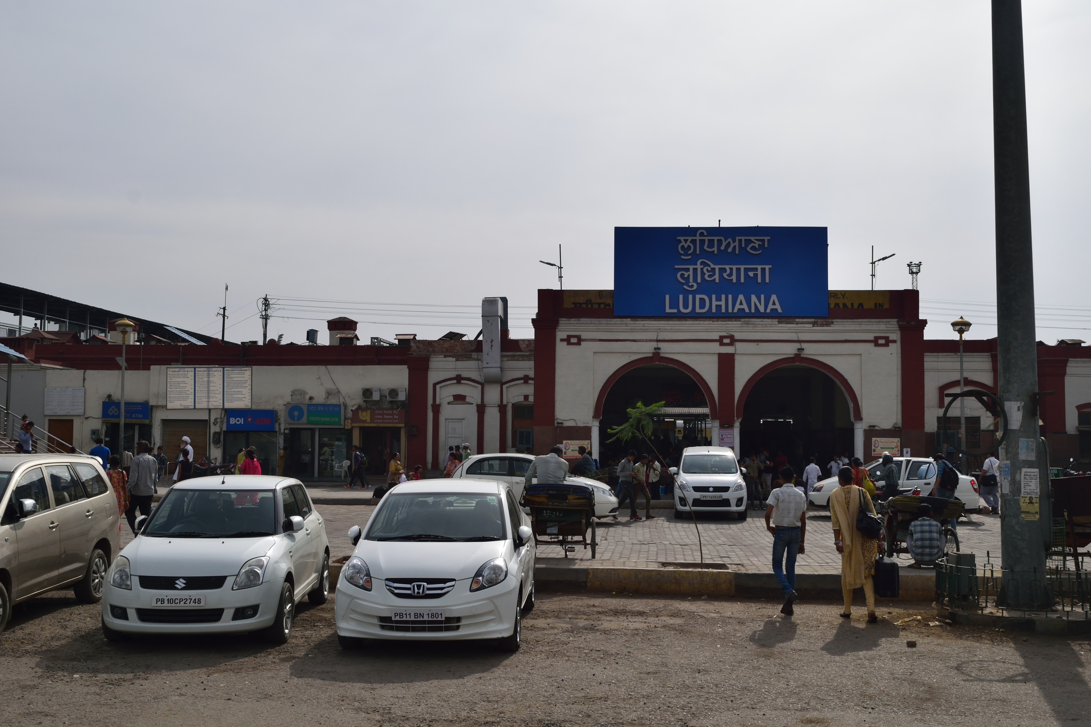 Facade of Ludhiana Railway Station